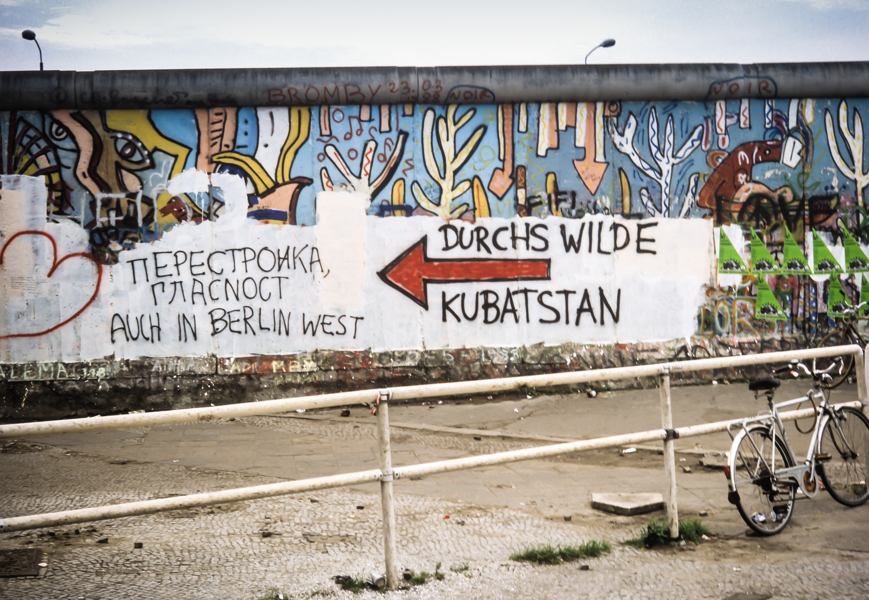 To the Kubat-Dreieck, Berlin Wall on Potsdamer Platz, June 1988